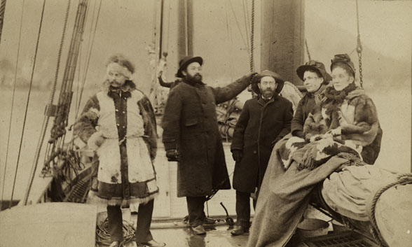 Photograph shows Presbyterian missionary Sheldon Jackson, third from the right, posing with a group on U.S.S. Bear, circa 1892.